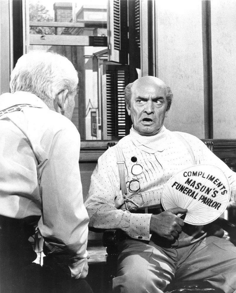 Spencer Tracy & Fredric March taken for film Inherit the Wind (1960). See also film still. No copyright notice.